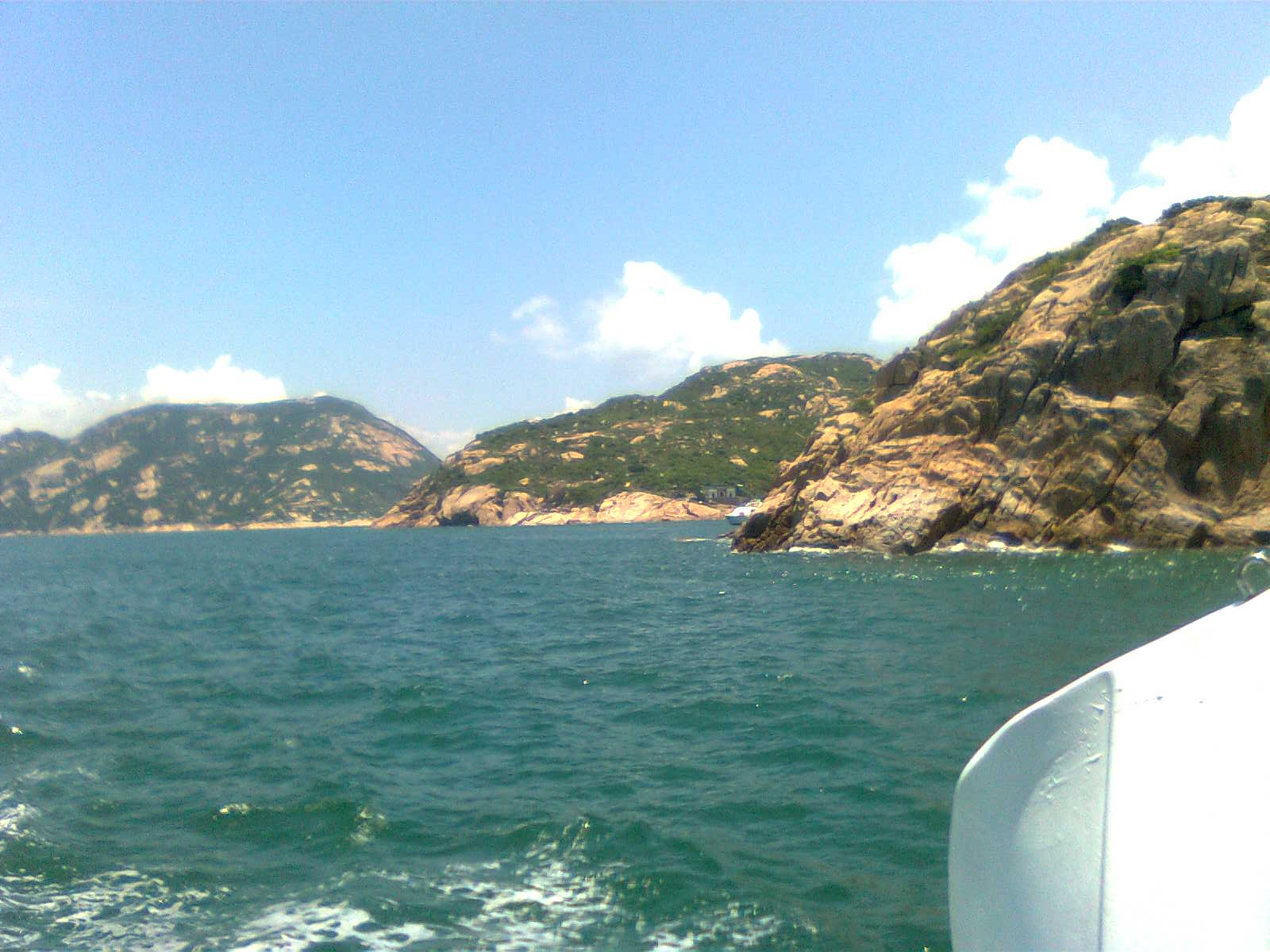 Po Toi Tai Wan and Beaufort Island